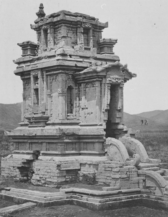 The Candi Puntadewa, one of the temples of the Candi Arjuna temple complex at the Dieng Plateau